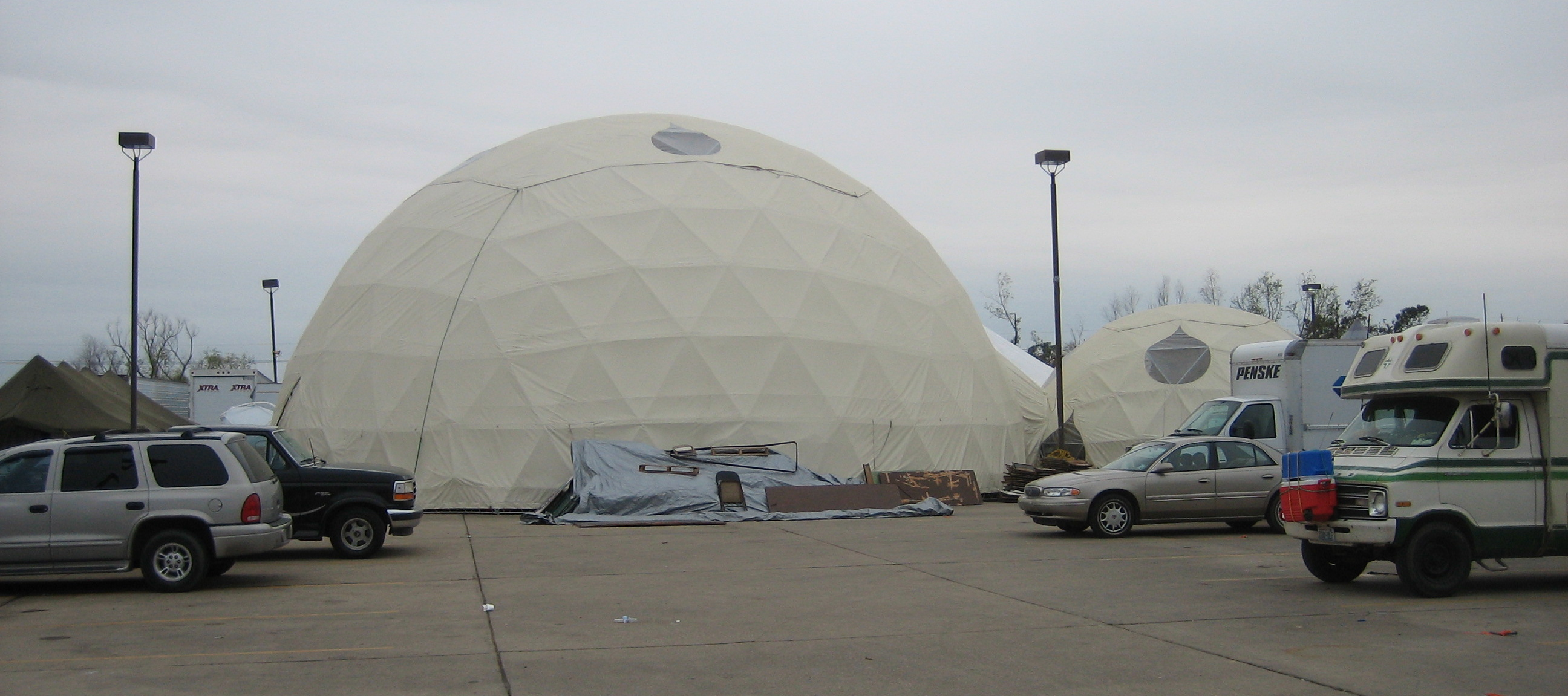 Portion of "tent city" relief camp in Hurricane Katrina devastated Chalmette, Louisiana. Free hot meals are offered here.